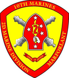 Insignia of the US 10th Marine Regiment located at Camp Lejeune, NC. Public domain from USMC 10th Marines Web Site at Source US Government Site - US Marine Corps.